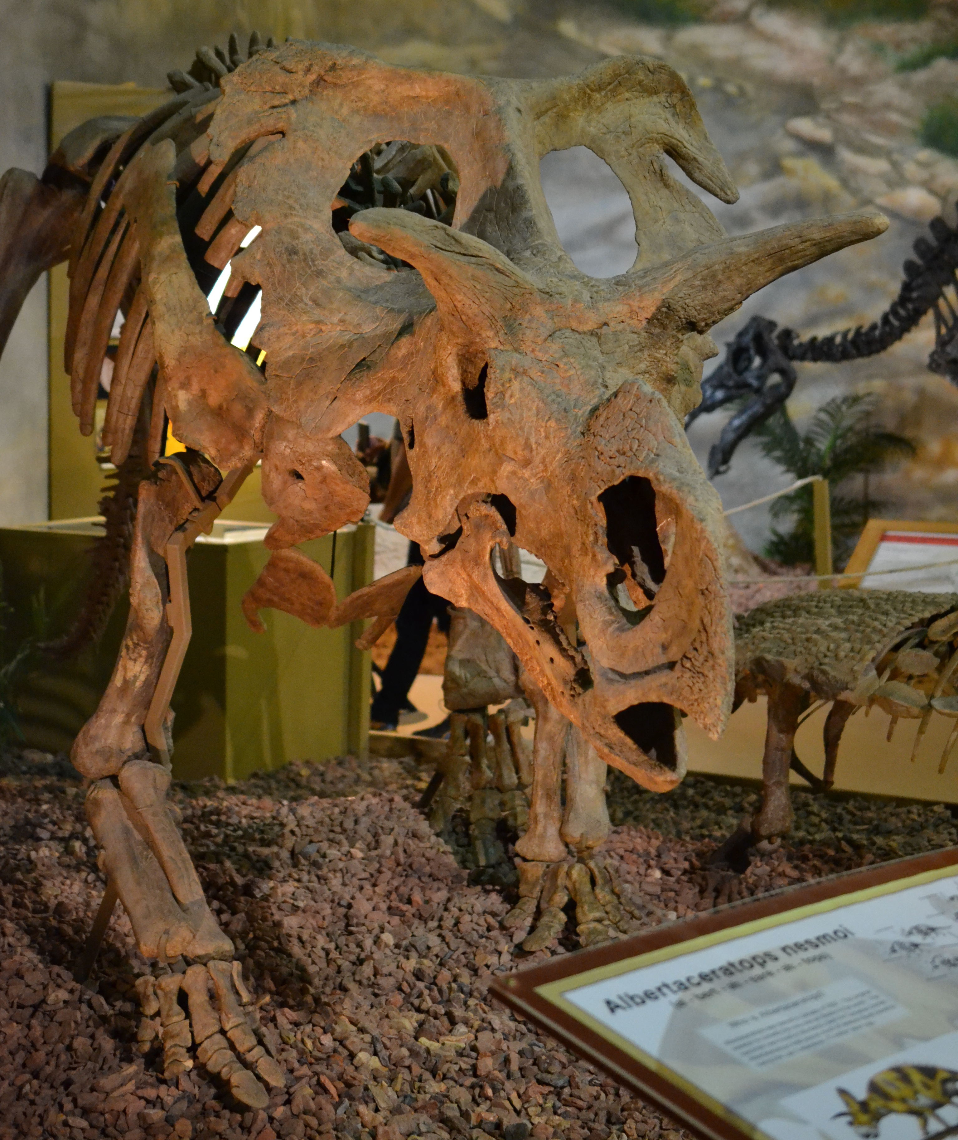 Wyoming Dinosaur Center